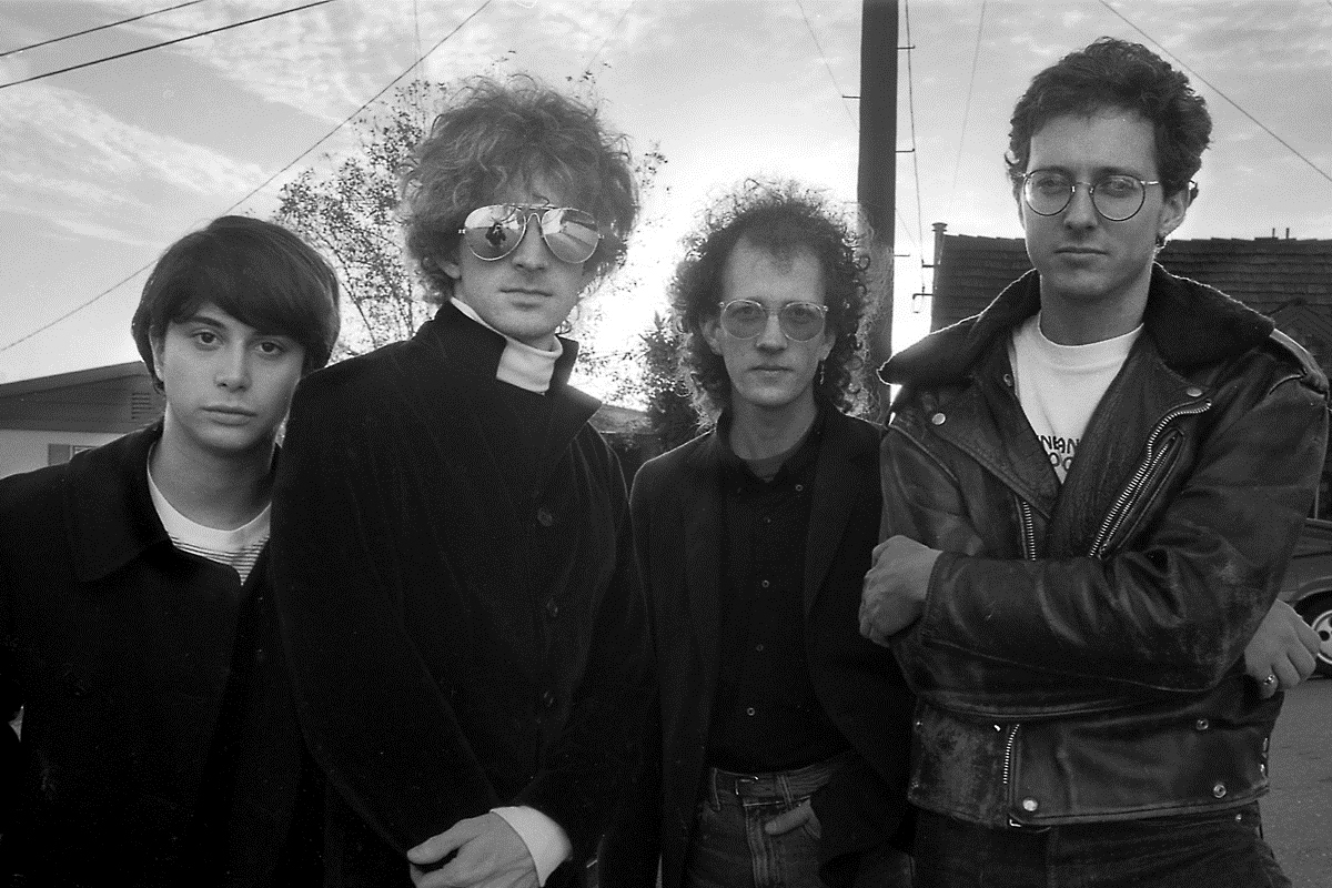 Game Theory, California.